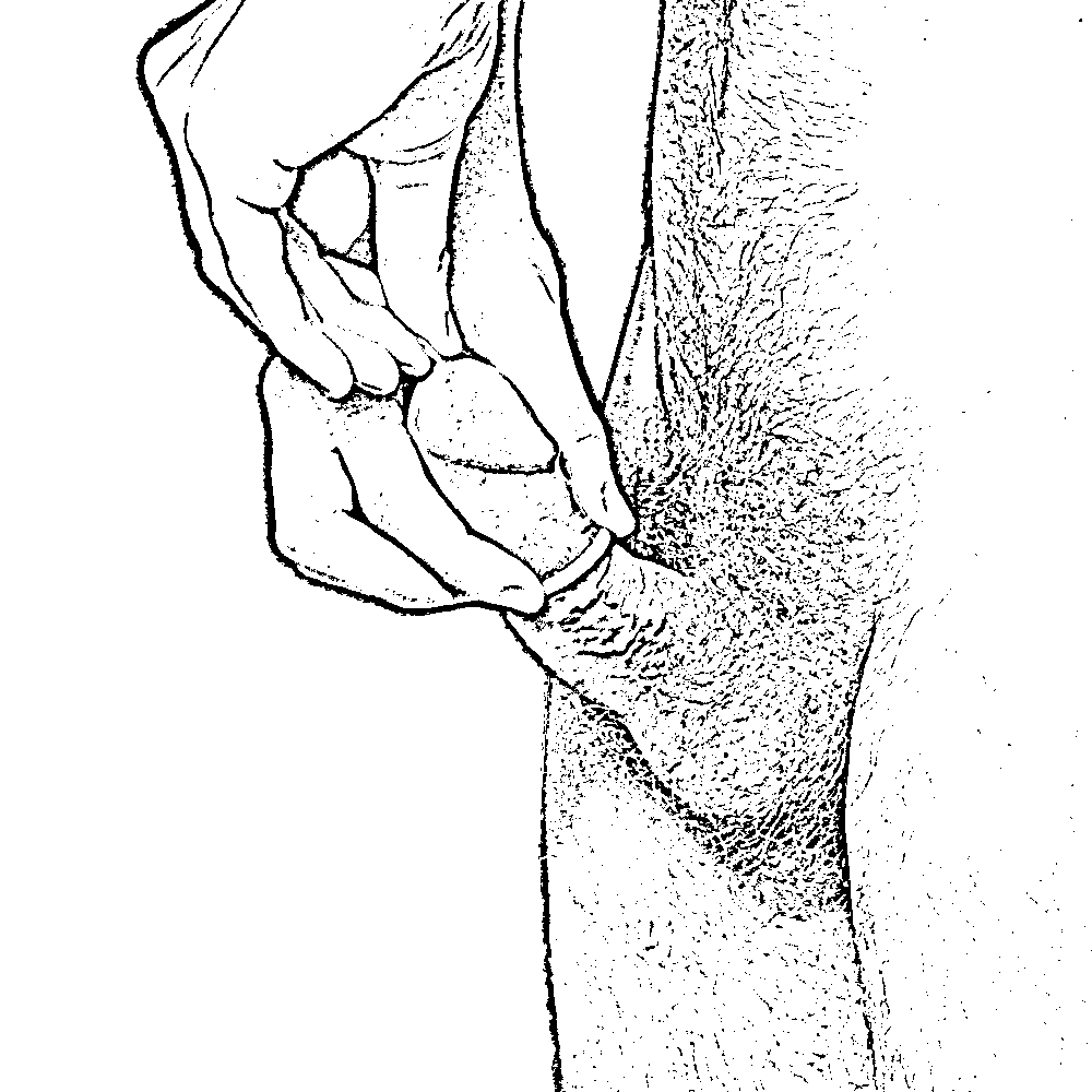 Condom use: How to put on a condom correctly